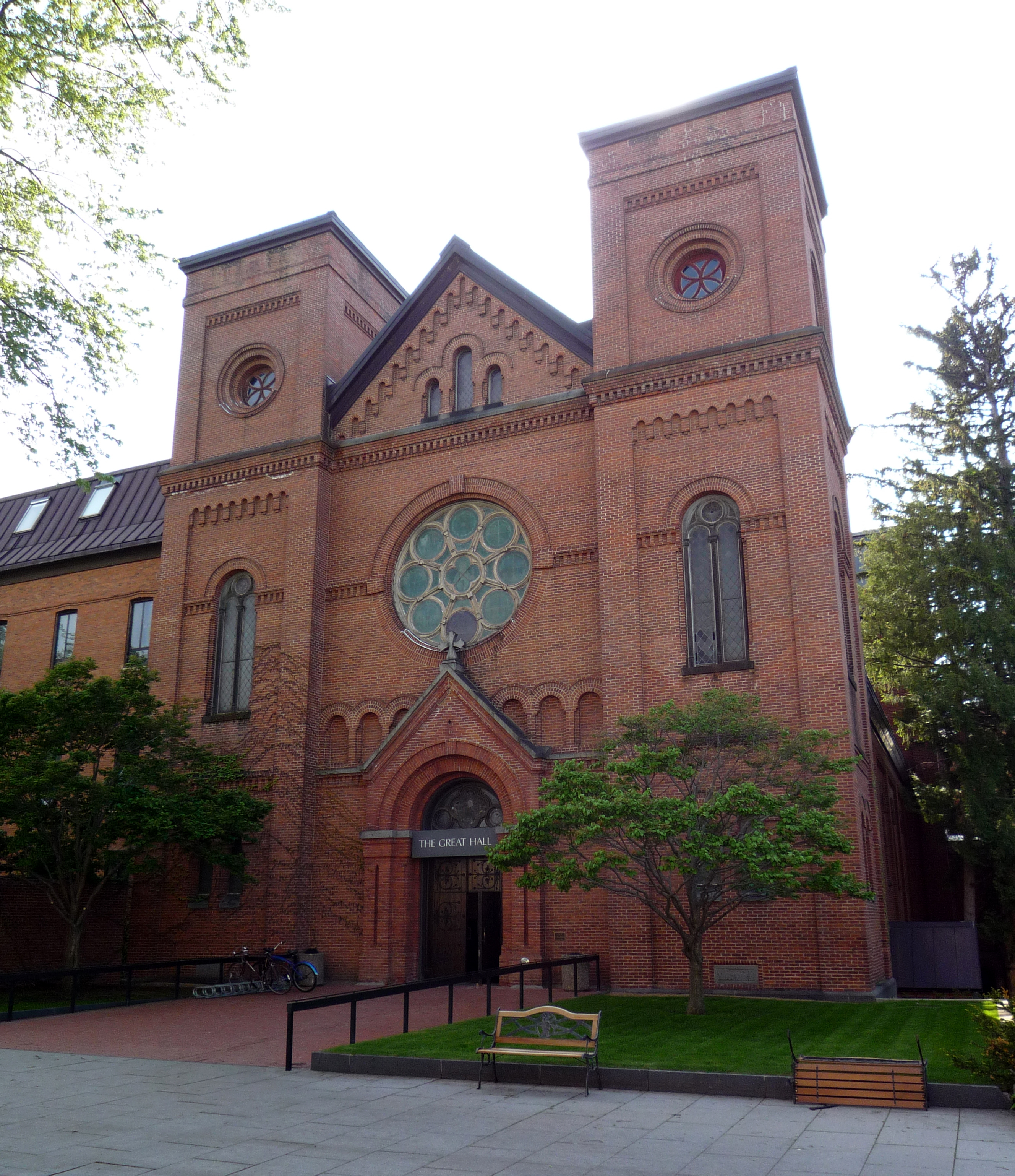 The Great Hall on the campus of Saint John's University, Collegeville, Minnesota, USA. The Great Hall was the abbey church until the construction of Saint John's Abbey next door.